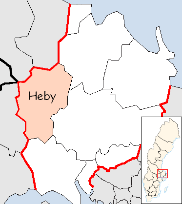 Heby Municipality in Uppsala County Designed by me. Mere outlines are a PD source from